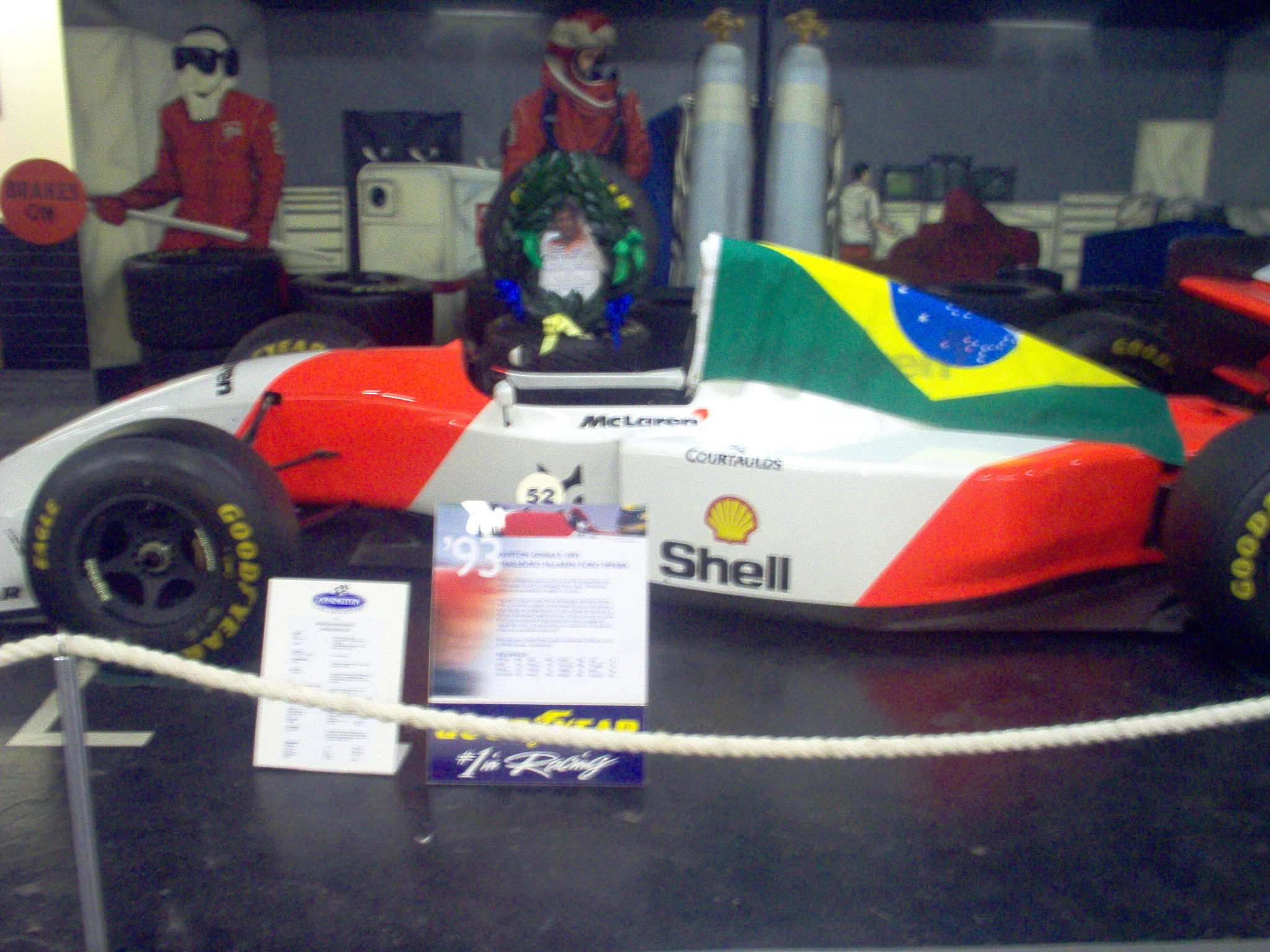 A tribute to Ayrton Senna at the Donington Collection, Castle Donington.